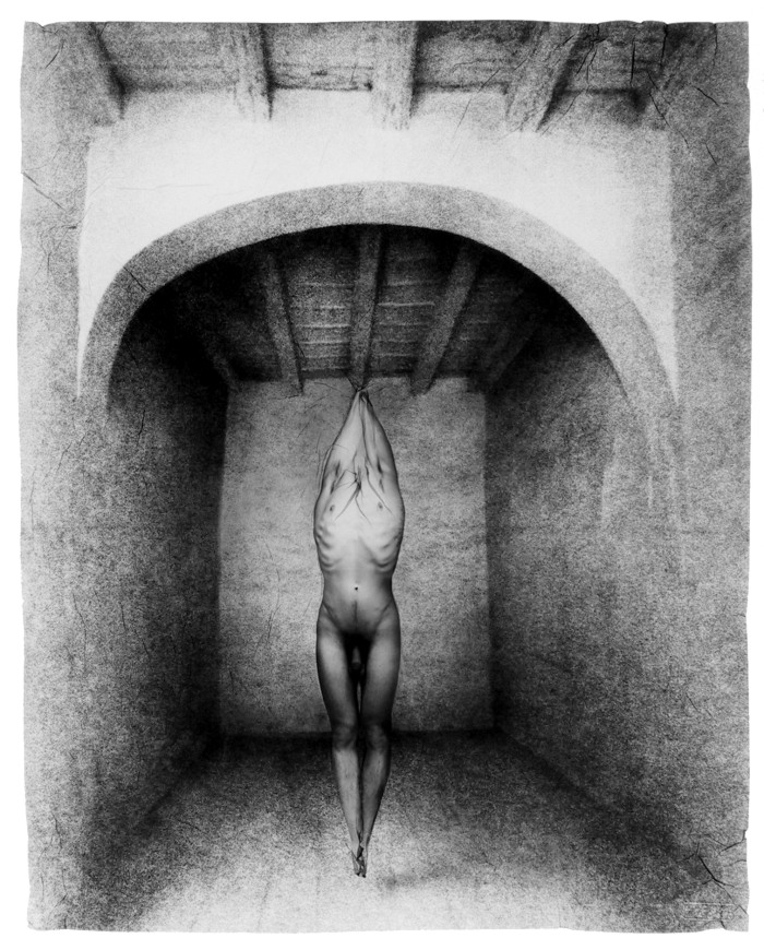 Photograph from Michal Macků